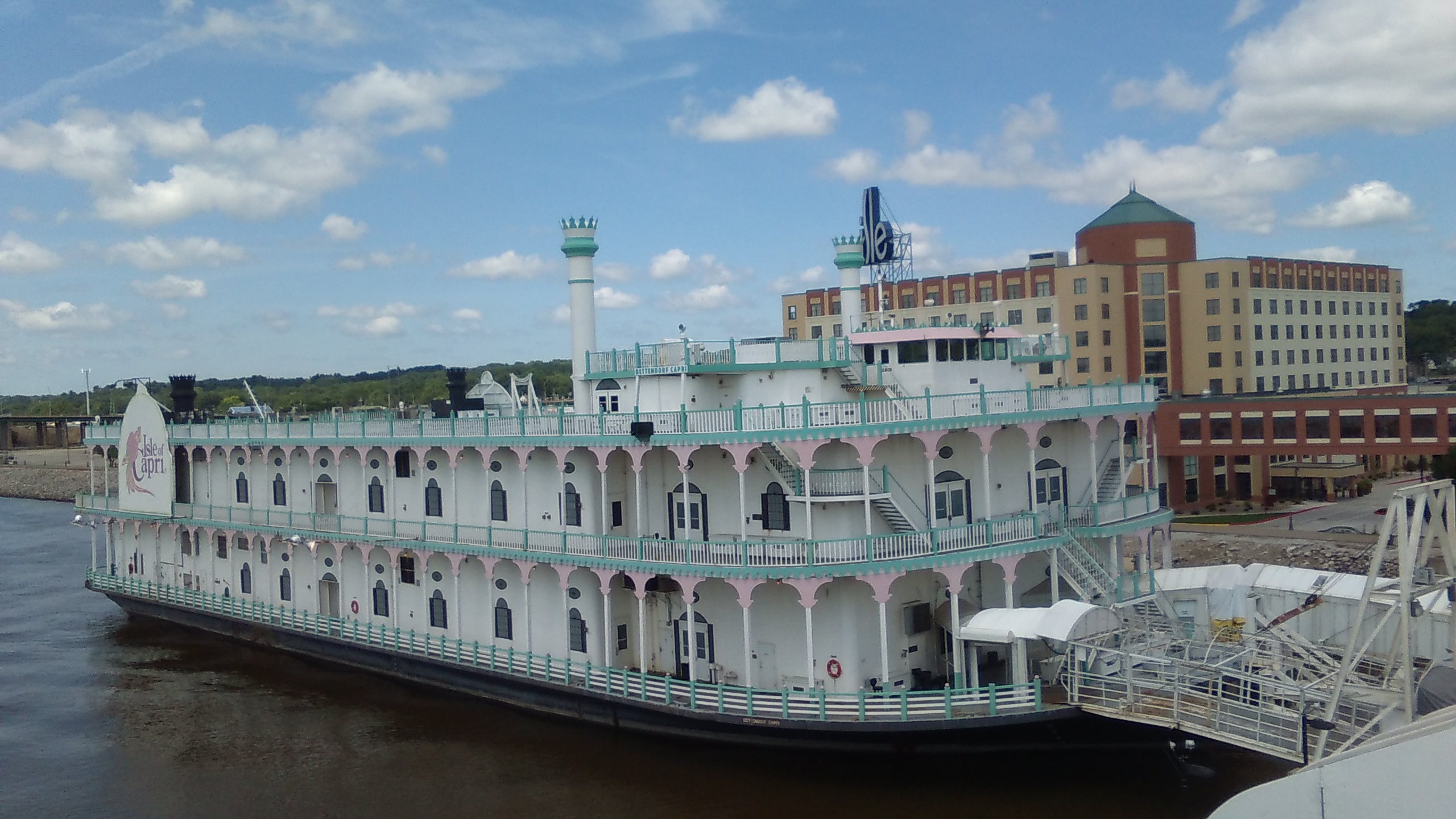 The Bettendorf Capri docked in Bettendorf, Iowa. Picture taken from the top deck of the American Queen.